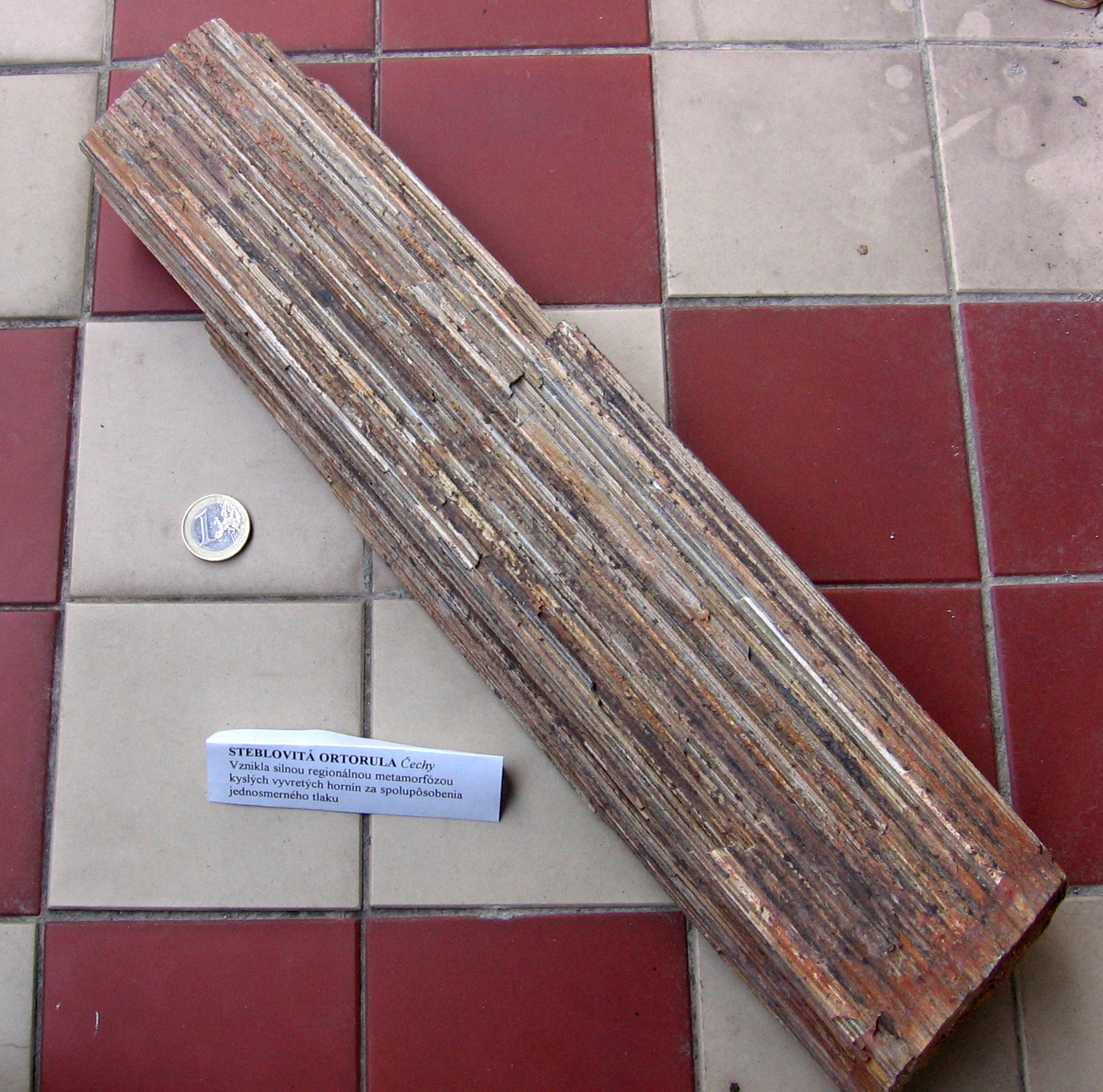 Orthogneiss sample with typical pencil structure. Formed by strong regional metamorphism of acid magmatic rocks affected by uniaxial strain. Doubravčany pencil gneiss from locality Doubravčany, Zásmuky, Kolín District, Czech Republic. Sample from collection of Department of Geology and Paleontology Comenius University Bratislava. Edge of tiles approximately 10 cm long.